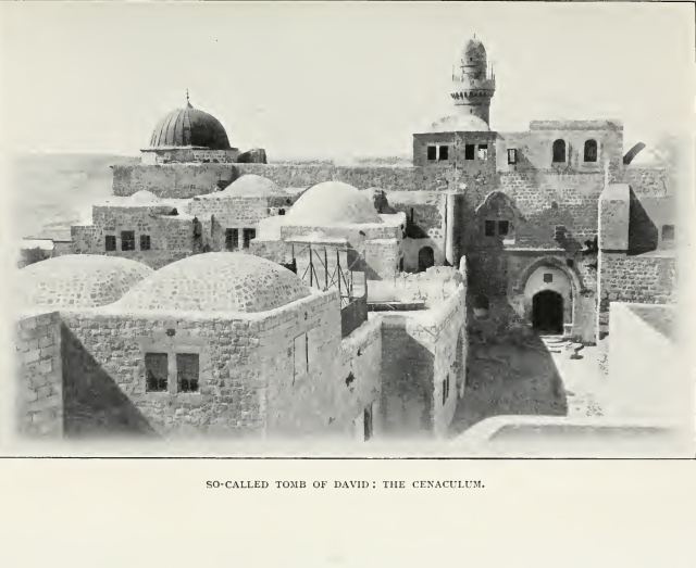 Tomb of king david Cenacle cenaculum 1913